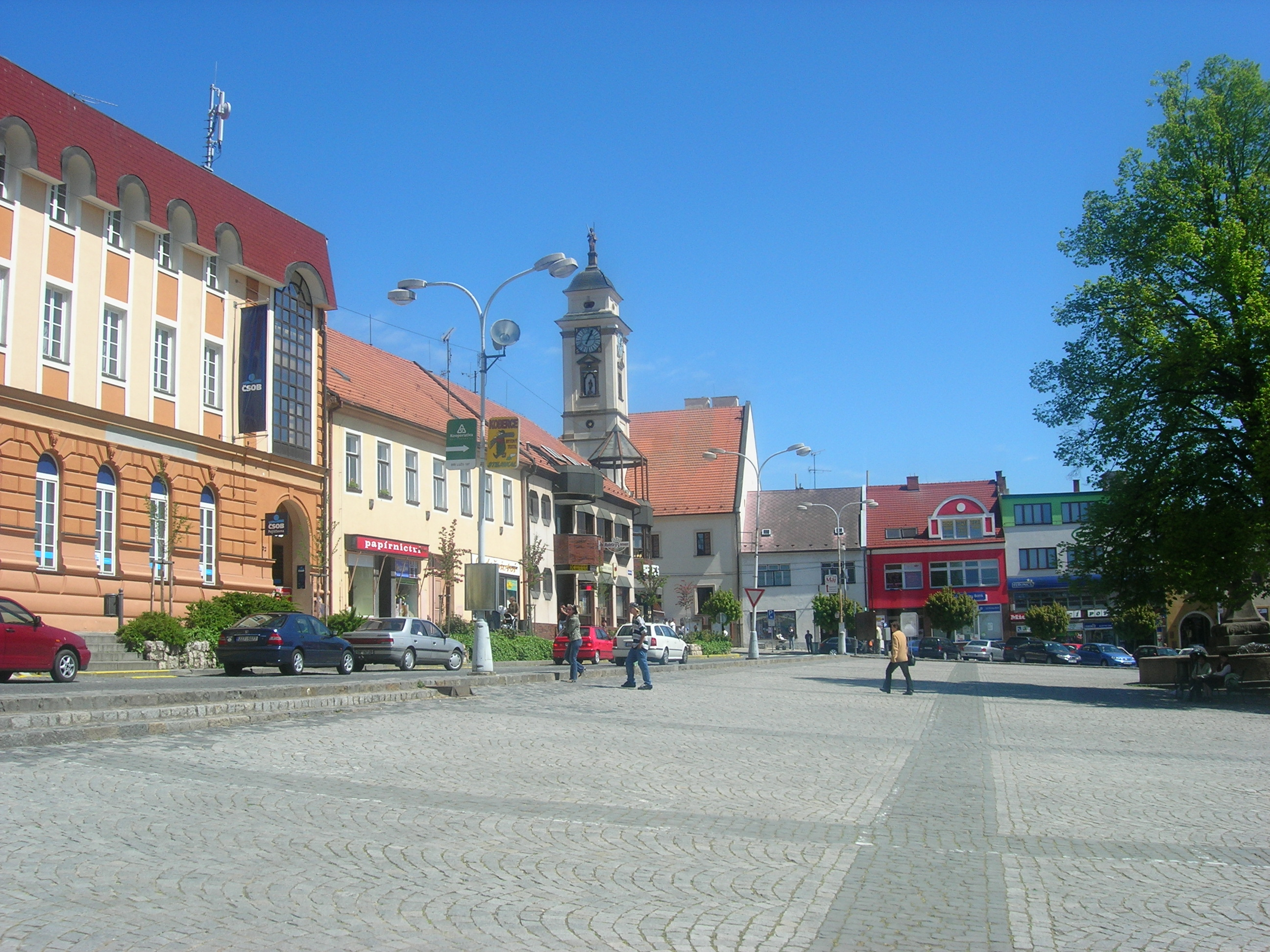 Masaryk square in Uhersky Brod, Czech Republic